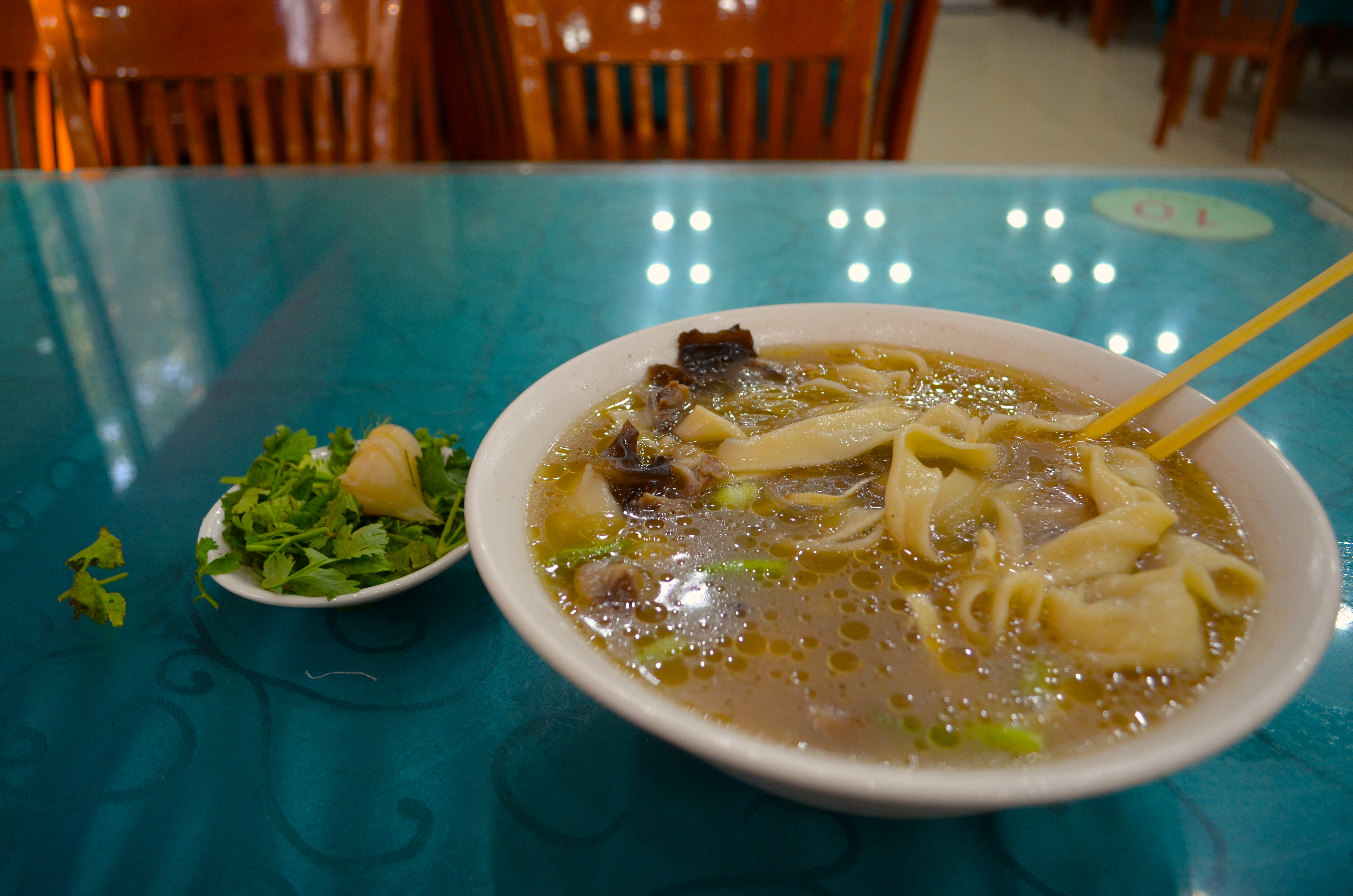 Henan braised noodles